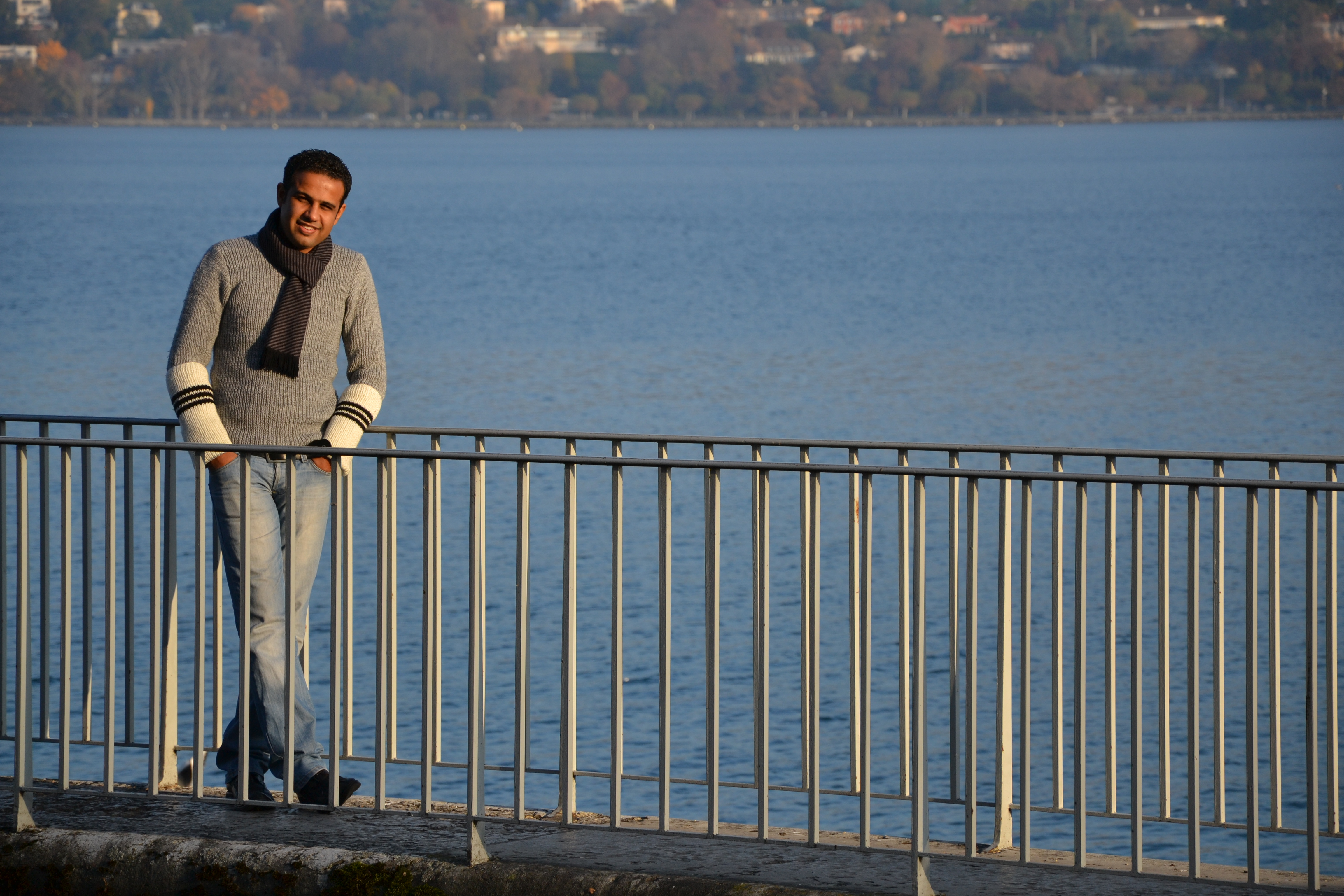 Mohammad Reza Fartousi